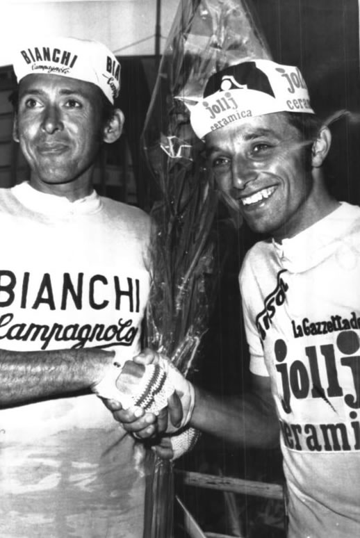 Martín Emilio Rodríguez and Fausto Bertoglio at the 1975 Giro d'Italia